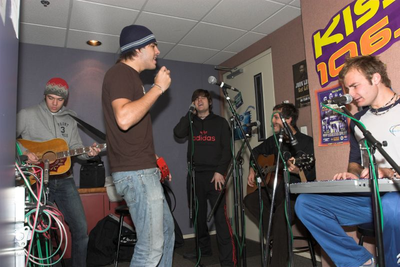 The Click Five at KISS 106.1 in Seattle, Washington, United States